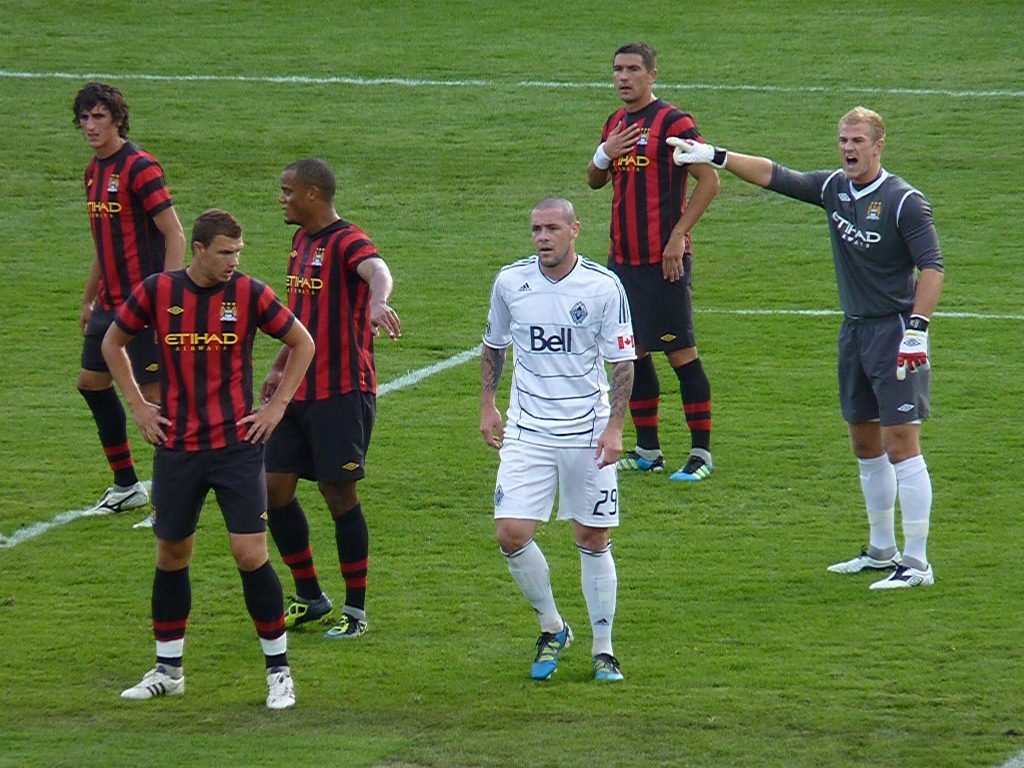 Vancouver Whitecaps vs Manchester City, 18 July 2011. Pictured from left to right: Stefan Savić, Edin Džeko, Vincent Kompany, Éric Hassli, Aleksandar Kolarov and Joe Hart.